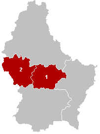 Map of Luxembourg illustrating the district of Mersch, which existed between 30 May 1857 and 4 May 1867. The cantons labelled are: Mersch Redange